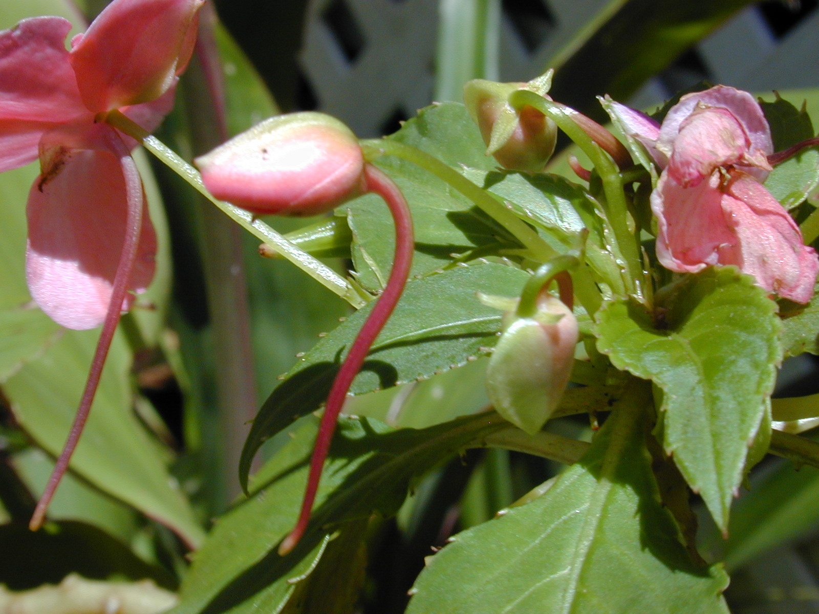 Impatiens walleriana (flower spurs). Location: Maui, Makawao